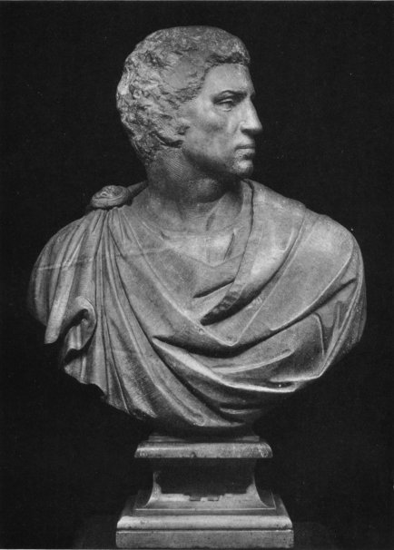 "Brutus" By Michelangelo